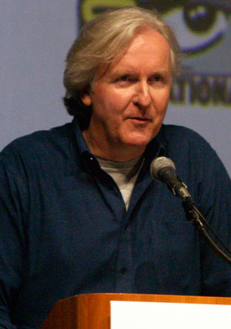 James Cameron introduce scenes from the 2009 film Avatar at San Diego Comic-Con.